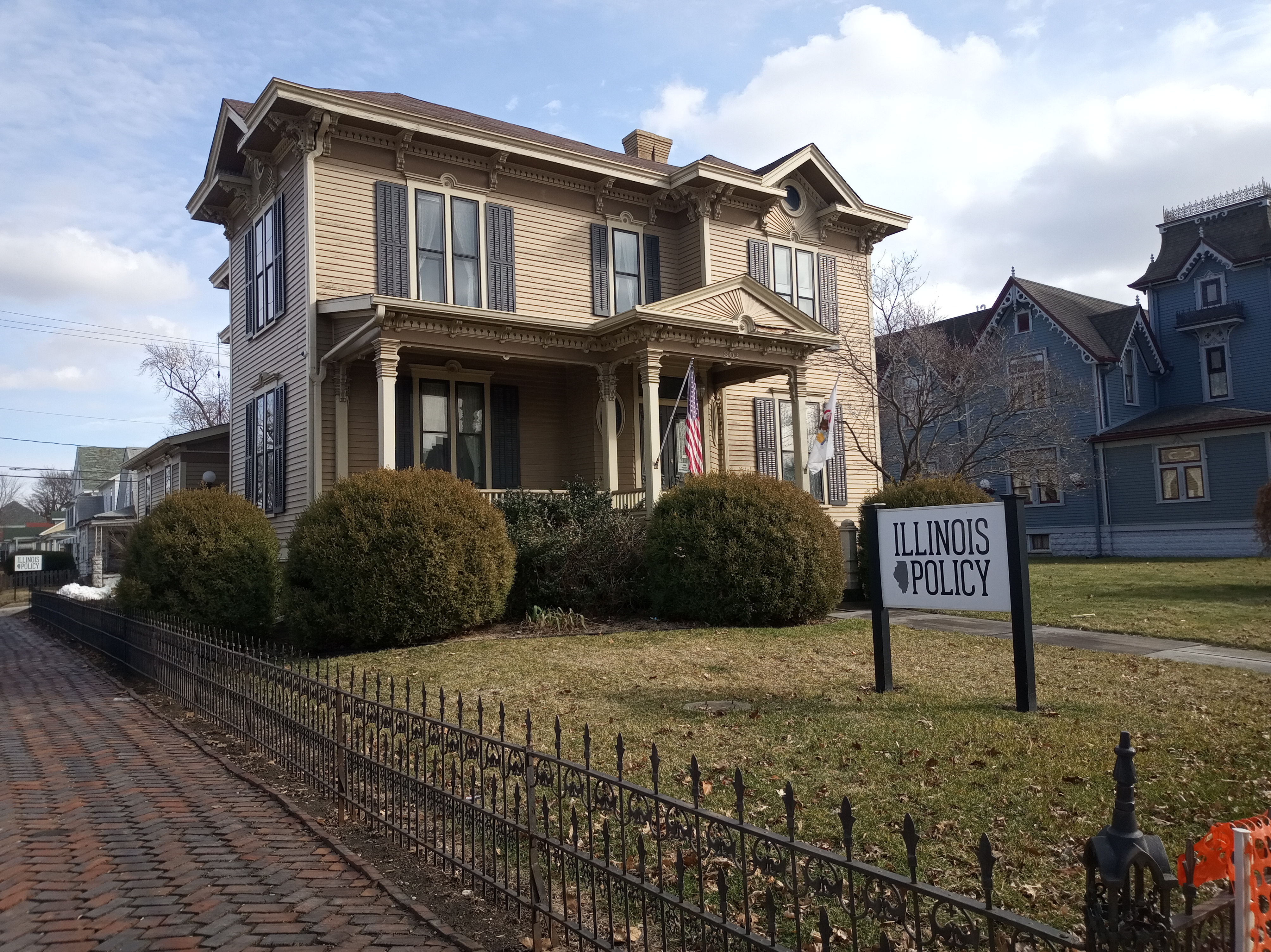 Illinois Policy Institute building in central Springfield Illinois, located in front of the bus stop at the southeast corner of Lawrence and 2nd.